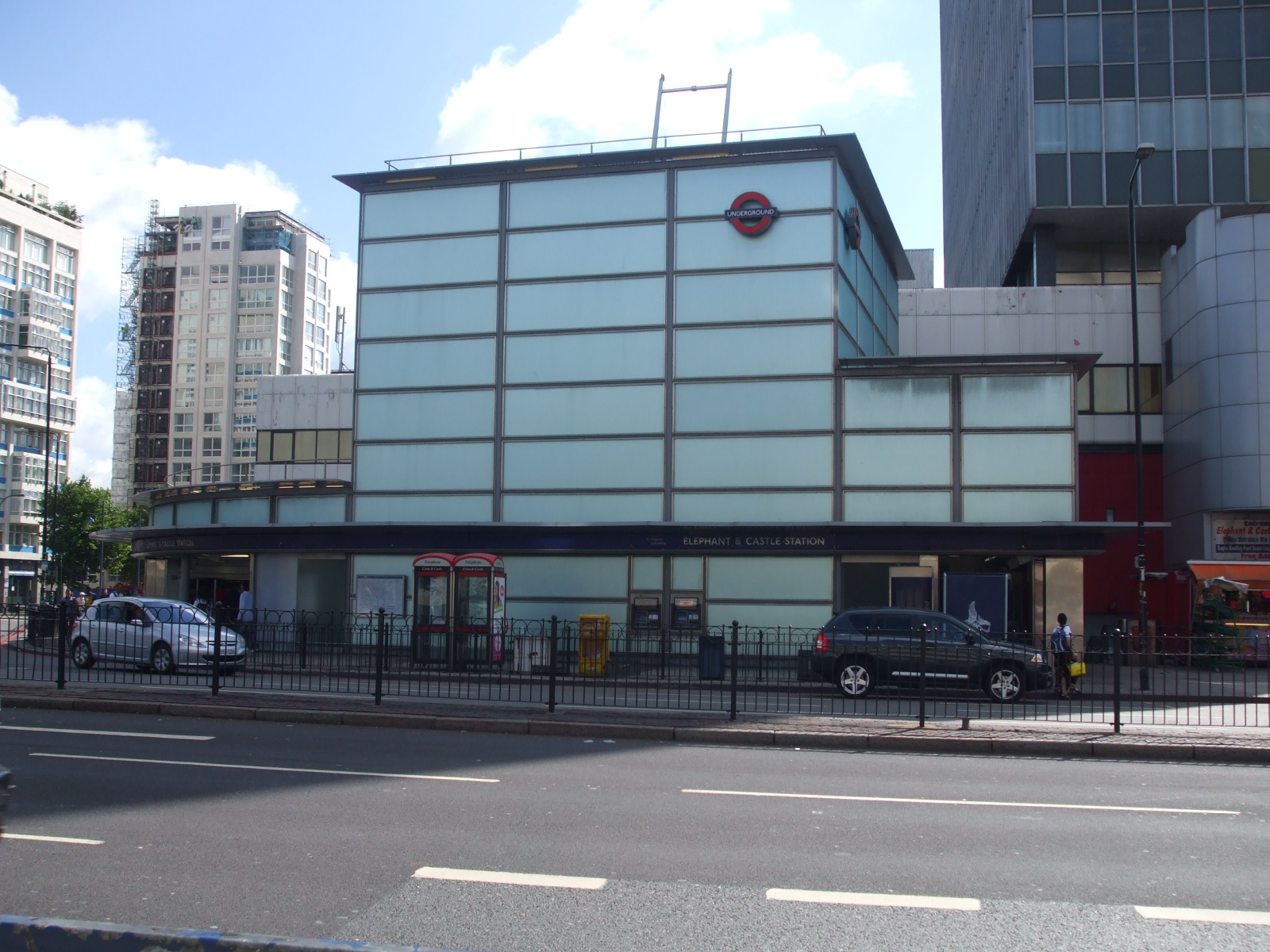 Elephant & Castle tube station southern entrance